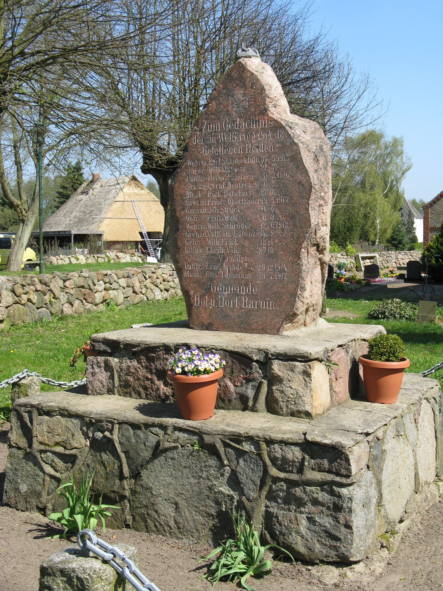 Memorial 1914/18 in Barnin, disctrict Ludwigslust-Parchim, Mecklenburg-Vorpommern, Germany